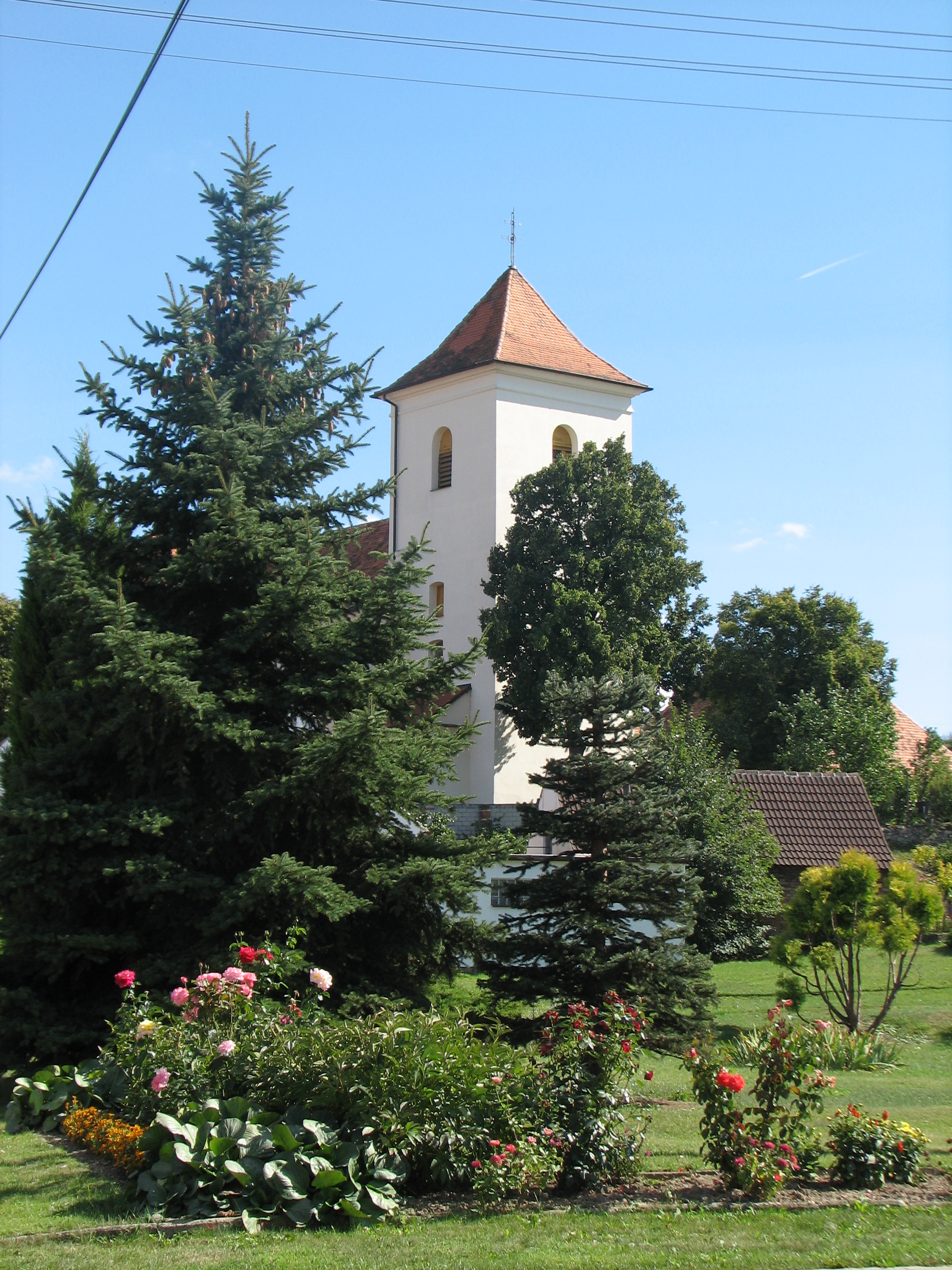 Saint James church in Želetice, Hodonín District, Czech Republic